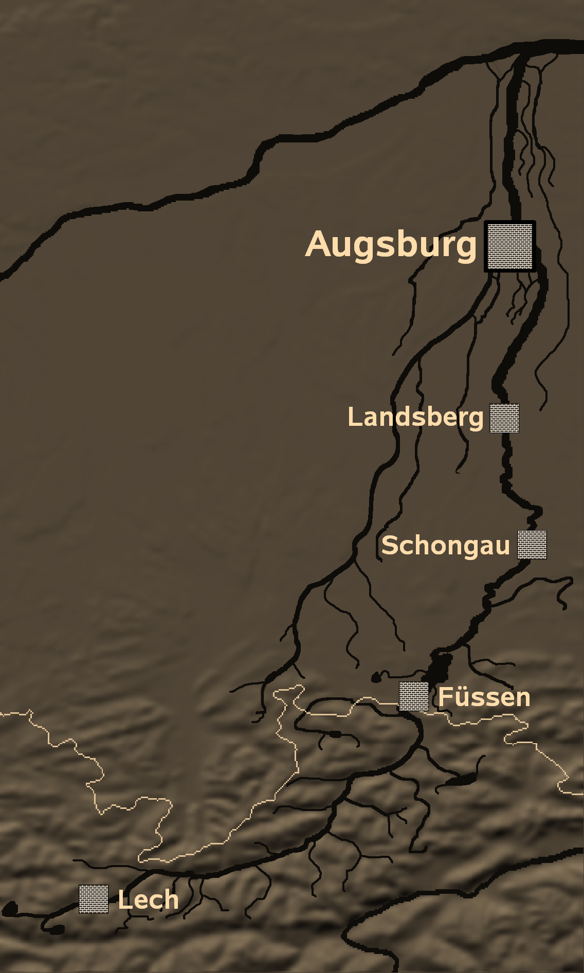 Map of the Lech River, a tributaryof Danube, flowing through Austria and Bawaria in Germany (only the local town names are shown as text, their sequence identiying and delineating the river on the map. No other signage was used here: this map is suitable for international/interlingual use)